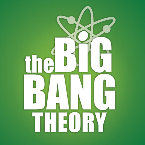 The Big Bang TheoryHrvatski: Teorija Velikog Praska